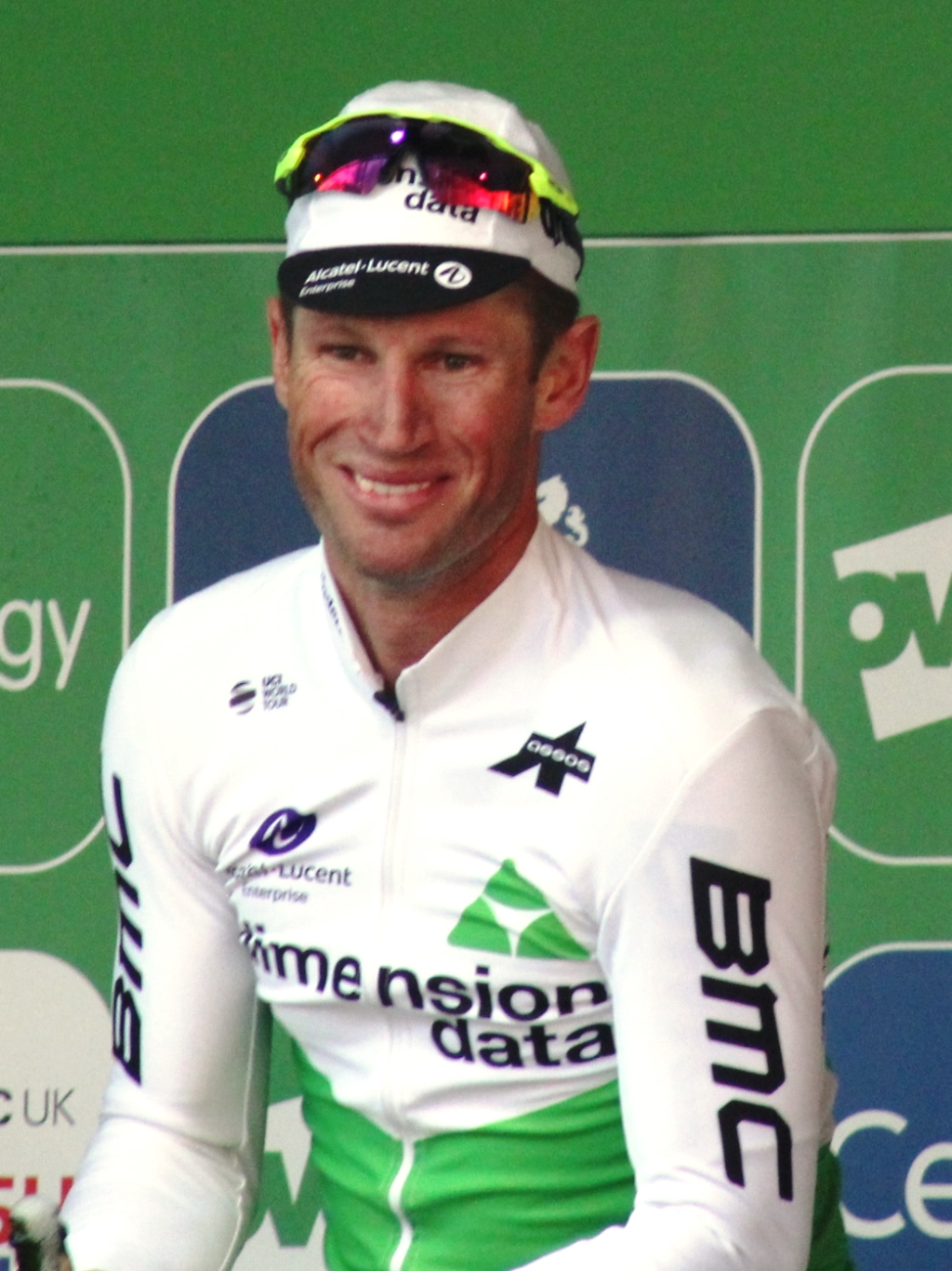 Mark Renshaw is on the podium at the end of the 2019 Tour of Britain cycle race for a special presentation to mark his retirement as a professional rider.